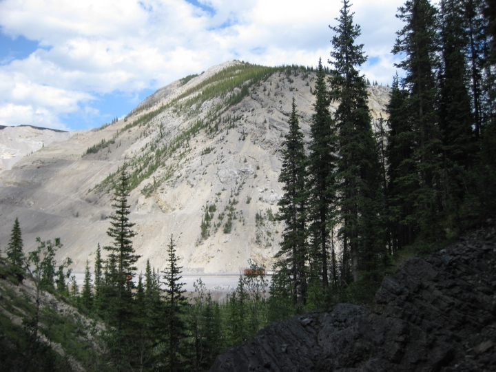 Cadomin scenery. Mountainous with rocky and wooded faces. Fir trees abound. The trees in this area are small due to high winds and a short growing season. Many of the mountain faces suffer winds too high to support plant growth. July 2011